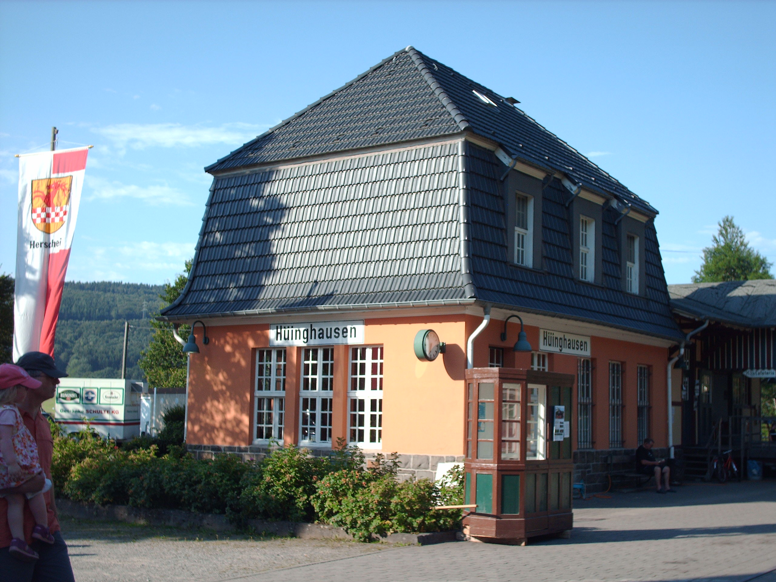 Hüinghausen station, Herscheid, Germany check usage